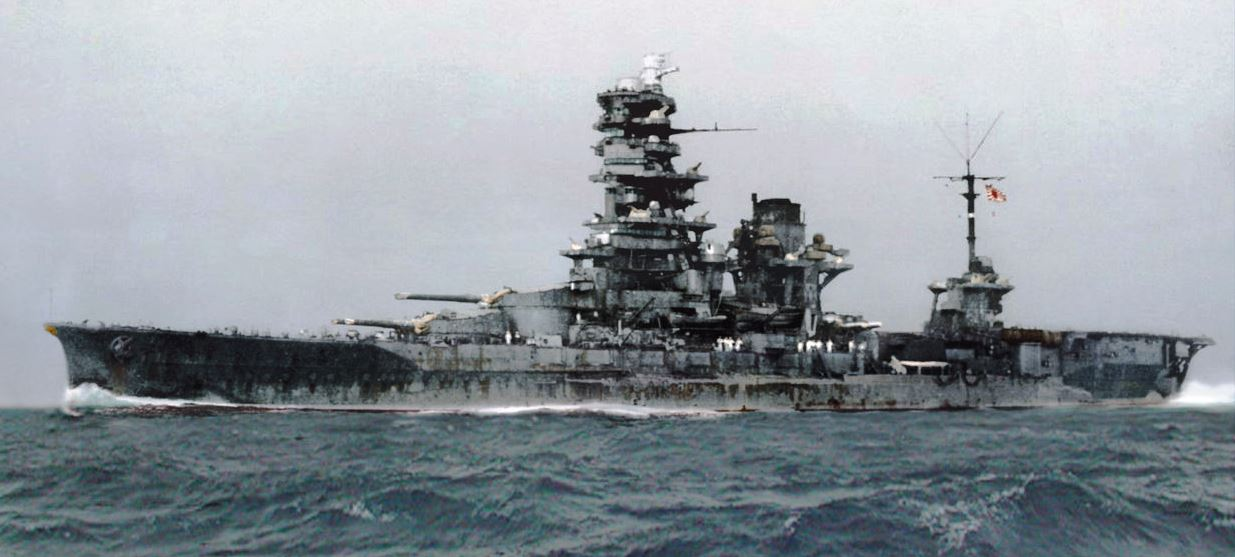 Japanese hybrid battleship/aircraft carrier Hyūga on her sea trials